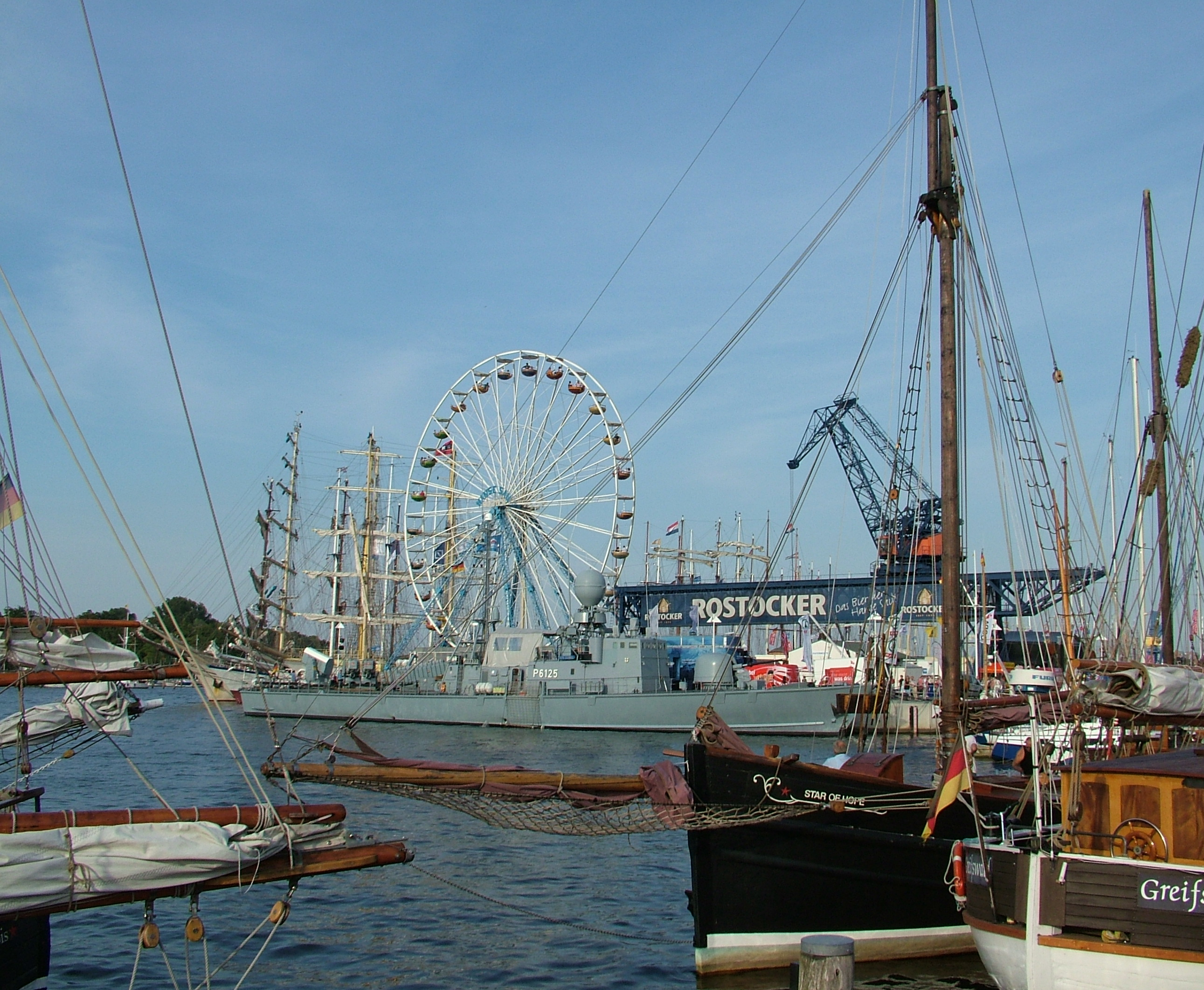 View of the Haedgehalbinsel in Rostock during Hanse Sail 2008.